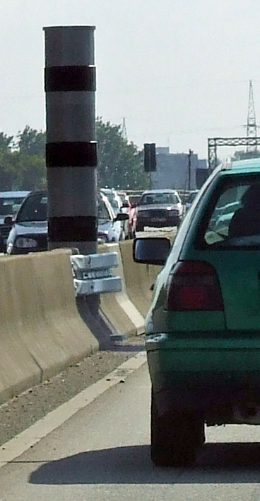 Speed controll camera at Schiersteiner Brücke, Wiesbaden